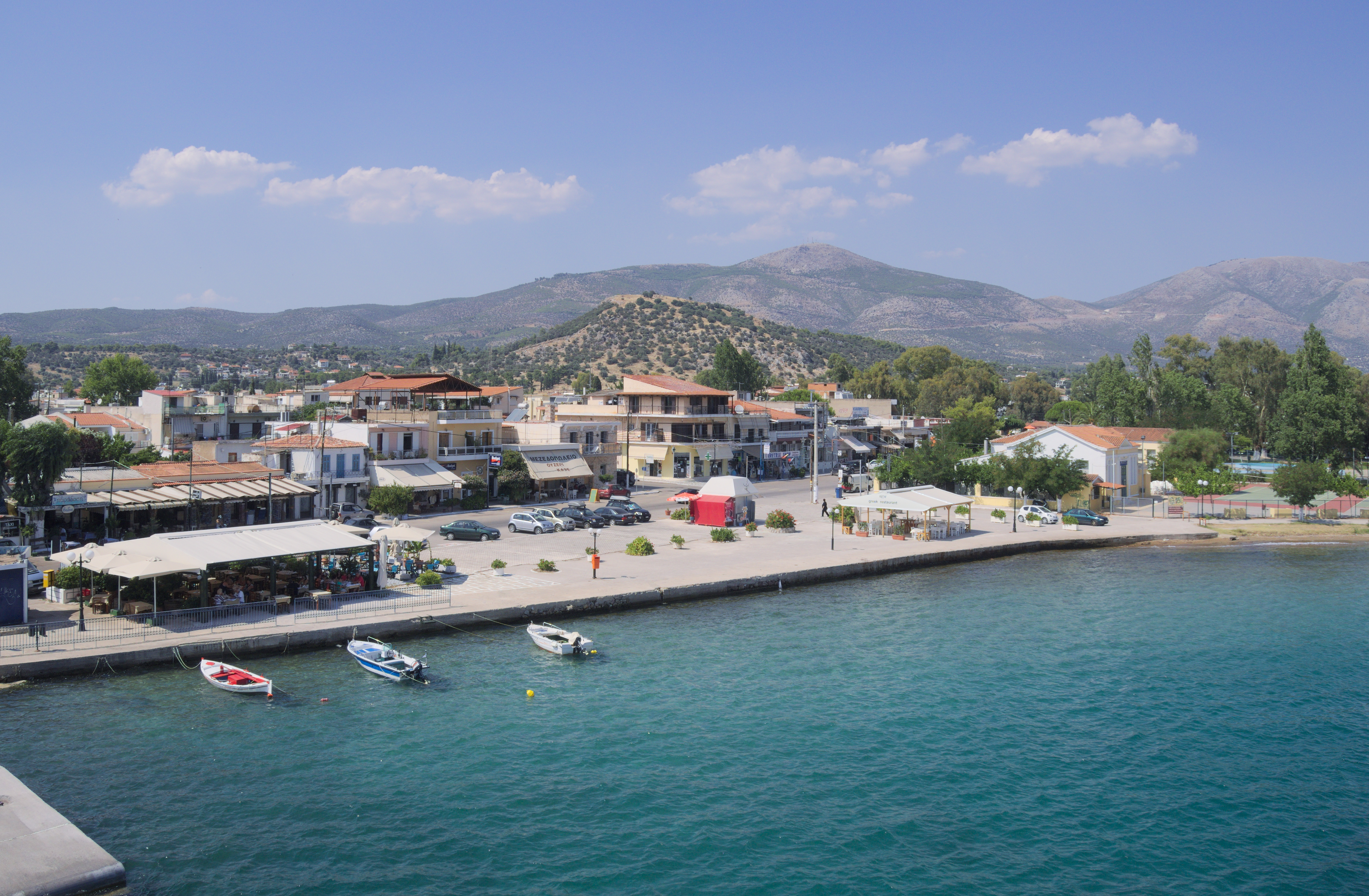 The harbour of moder day Eretria, as seen from the ferry boat.